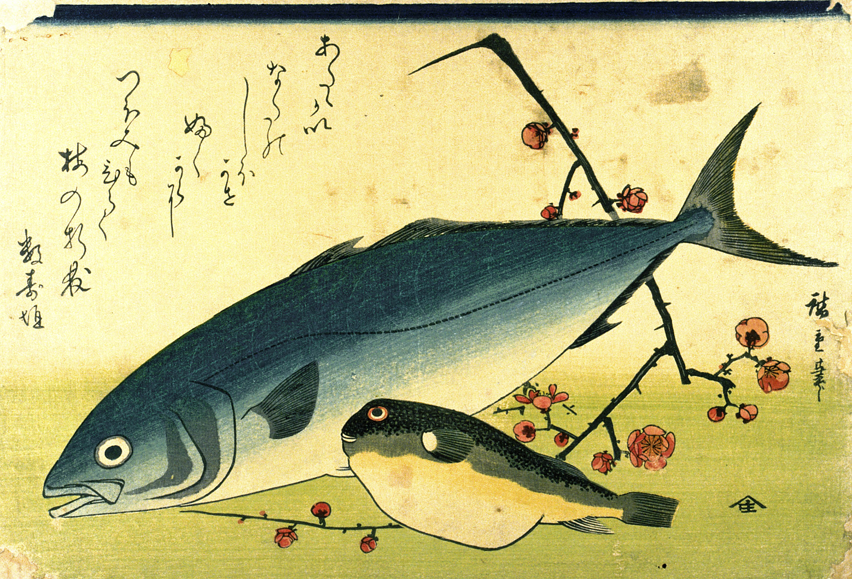 Ando Hiroshige (1797 - 1858): A Shoal of Fishes. (set of 15 prints). This image shows "inada & fugu (Japanese amberjack=Seriola quinqueradiata & puffer/blowfish)" woodcuts, 26 X 36 cm. 15 of 20 total woodcuts, published 1832